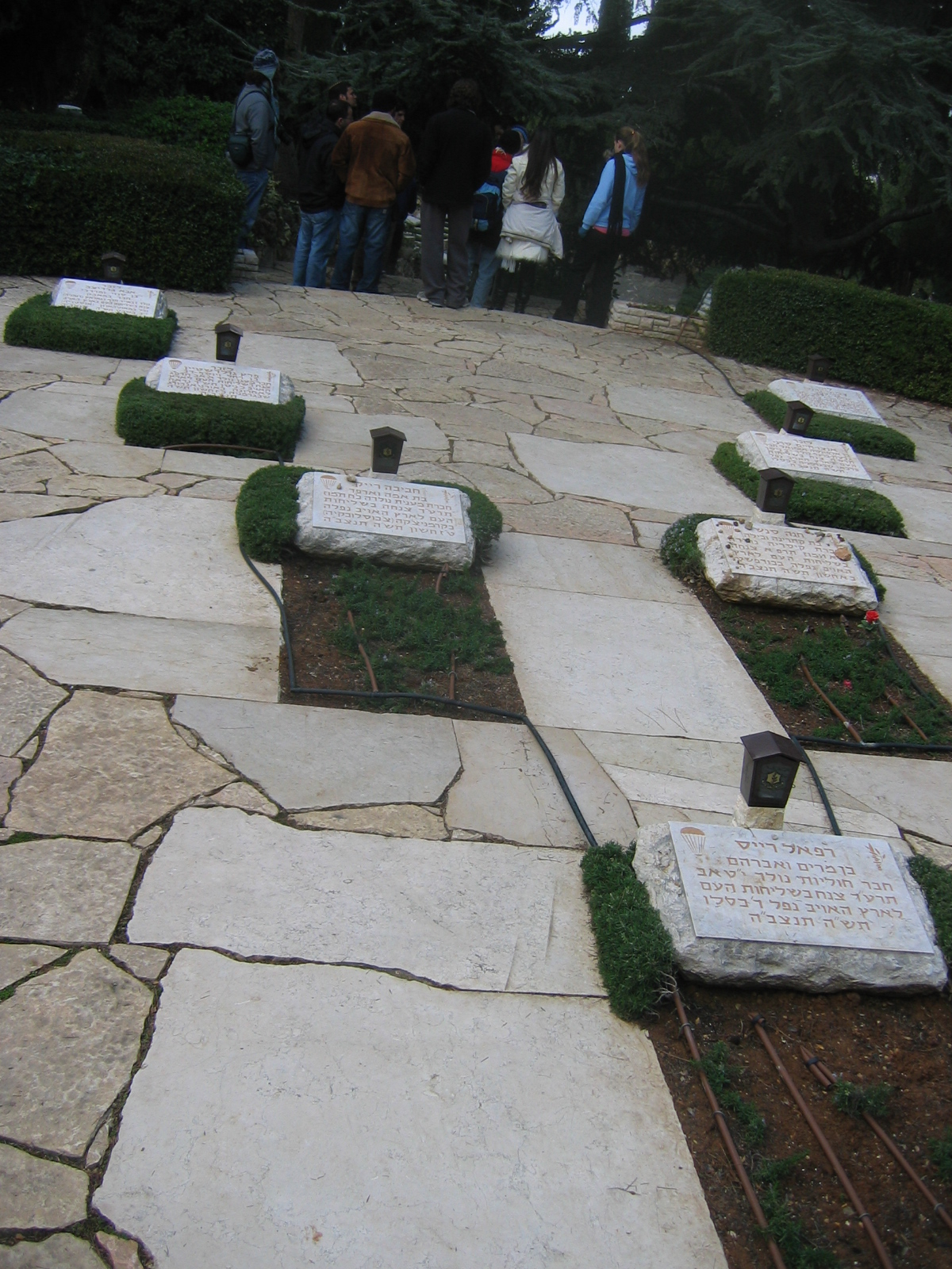 Memorial for the Jewish paratroopers whose mission was to rescue European Jews from the Holocaust